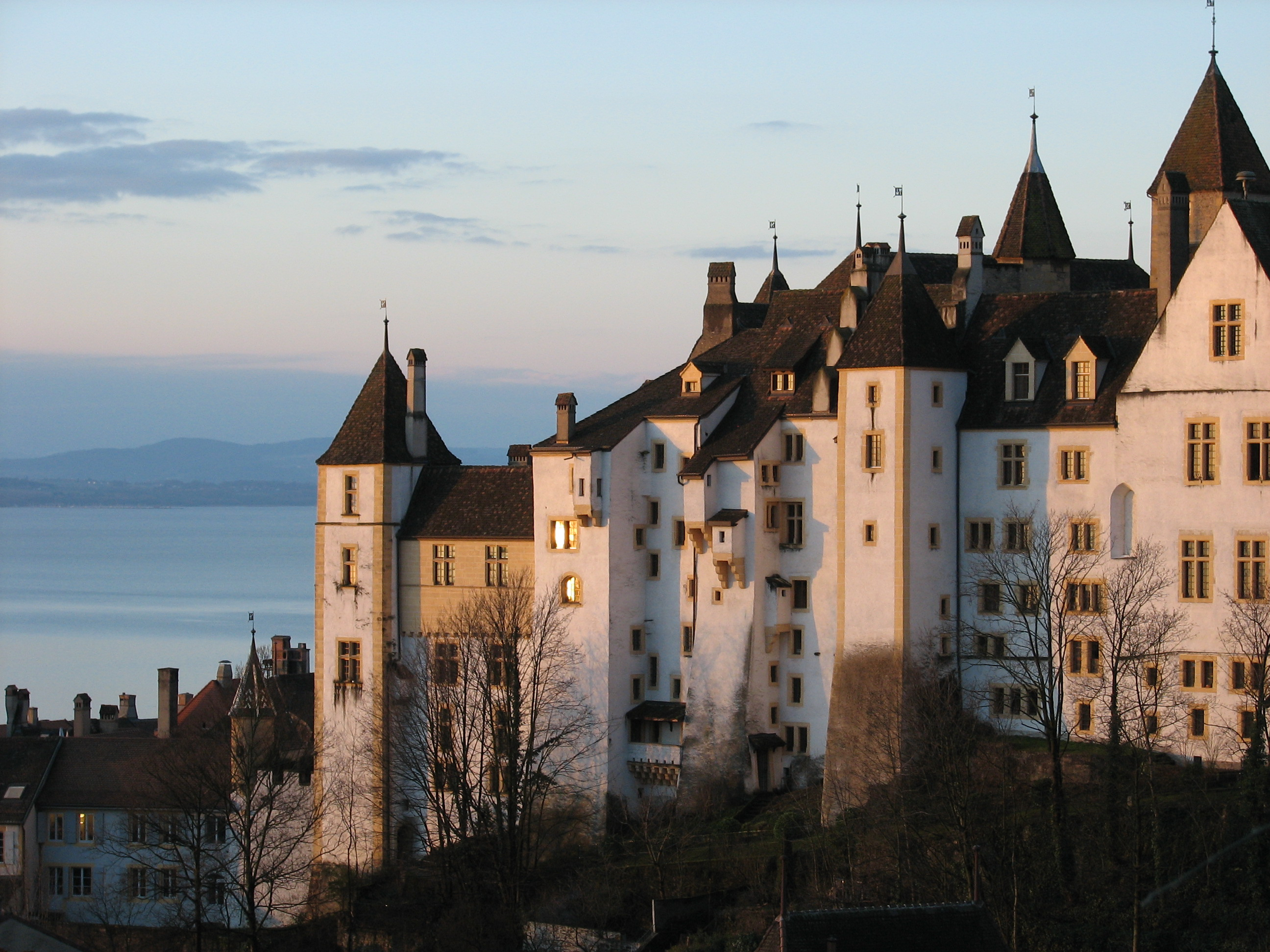 Castle of Neuchâtel from east, at sunrise